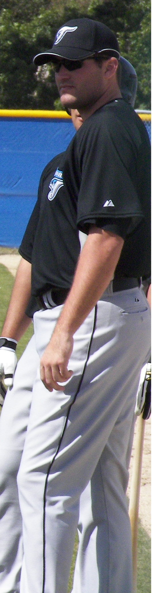 Toronto Blue Jays third baseman Troy Glaus during a spring training workout at the Blue Jays' spring training complex in Dunedin, Florida.